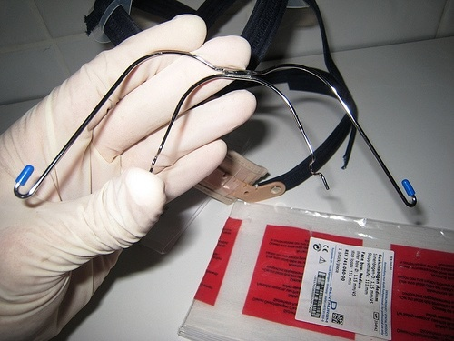 Orthodontic Facebow being held by an orthodontist before fitting into the patients mouth.